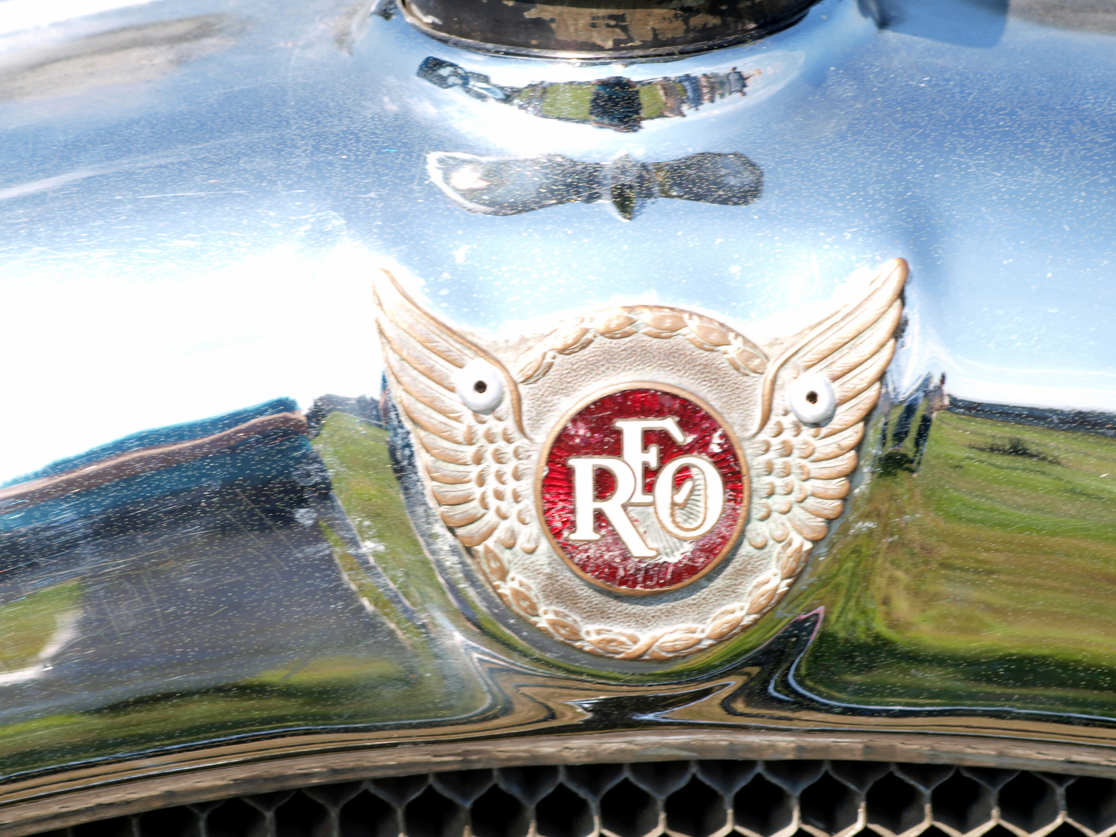 Photographed at The International Oldtimer Fly and Drive In 2010, Schaffen-Diest, Belgium.